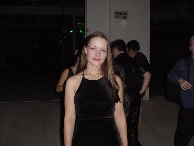 Marsha (Martine Theeuwen), singer of the song Castles In The Sky from Ian Van Dahl, at a party at Ice Palace Studios during Winter Music Conference 2001, Miami Beach, FL, USA